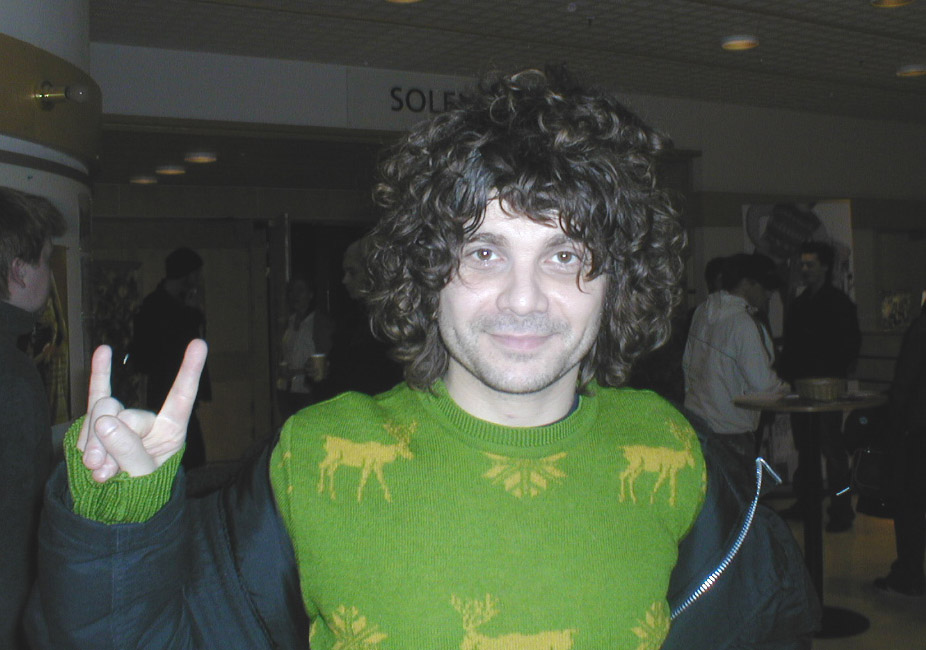 Swedish pop singer, composer and producer Pär Wiksten at Popstad Skellefteå in 2002.